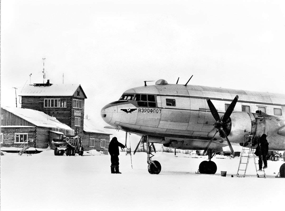 Old "Yagelnoe" Airport (Novy Urengoy)